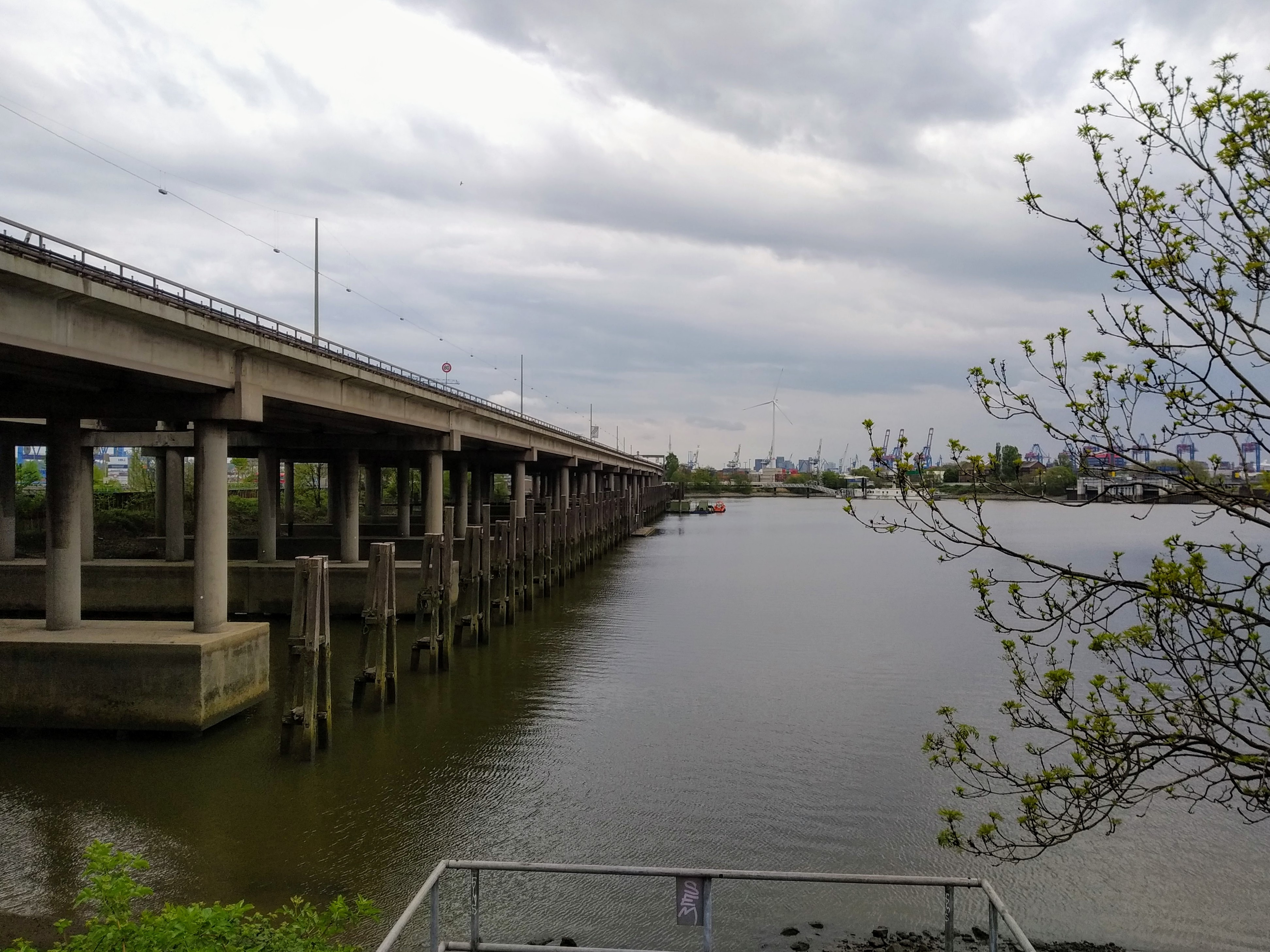 Rugenberger Hafen in Hamburg